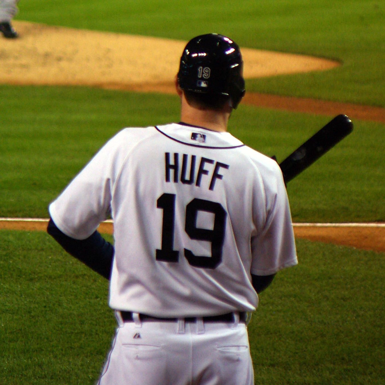 Aubrey Huff